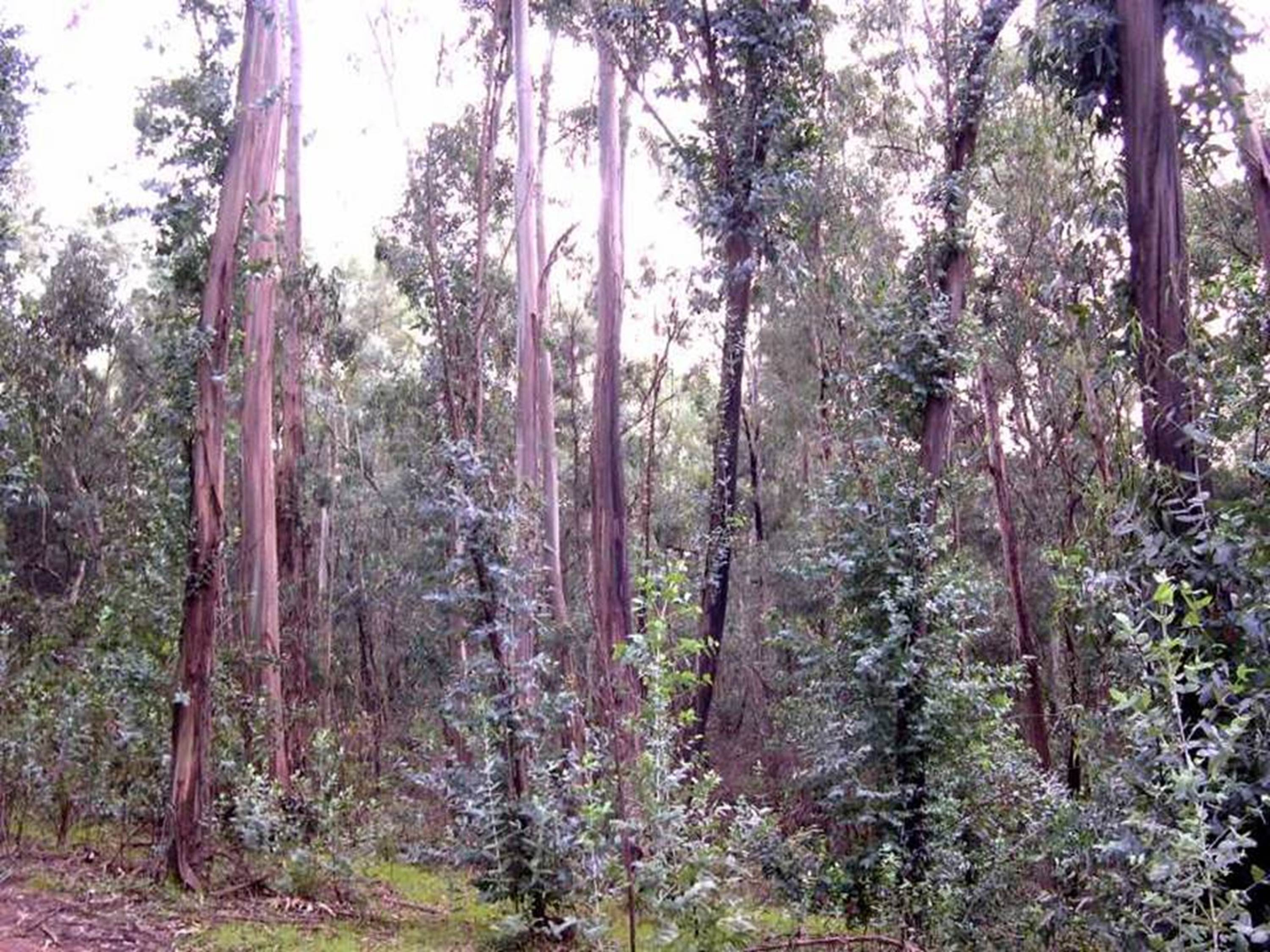 These 40-year-old eucalyptus plantations in Doñana National Park (Spain) were removed mechanically in the 90s to restore the original marshlands